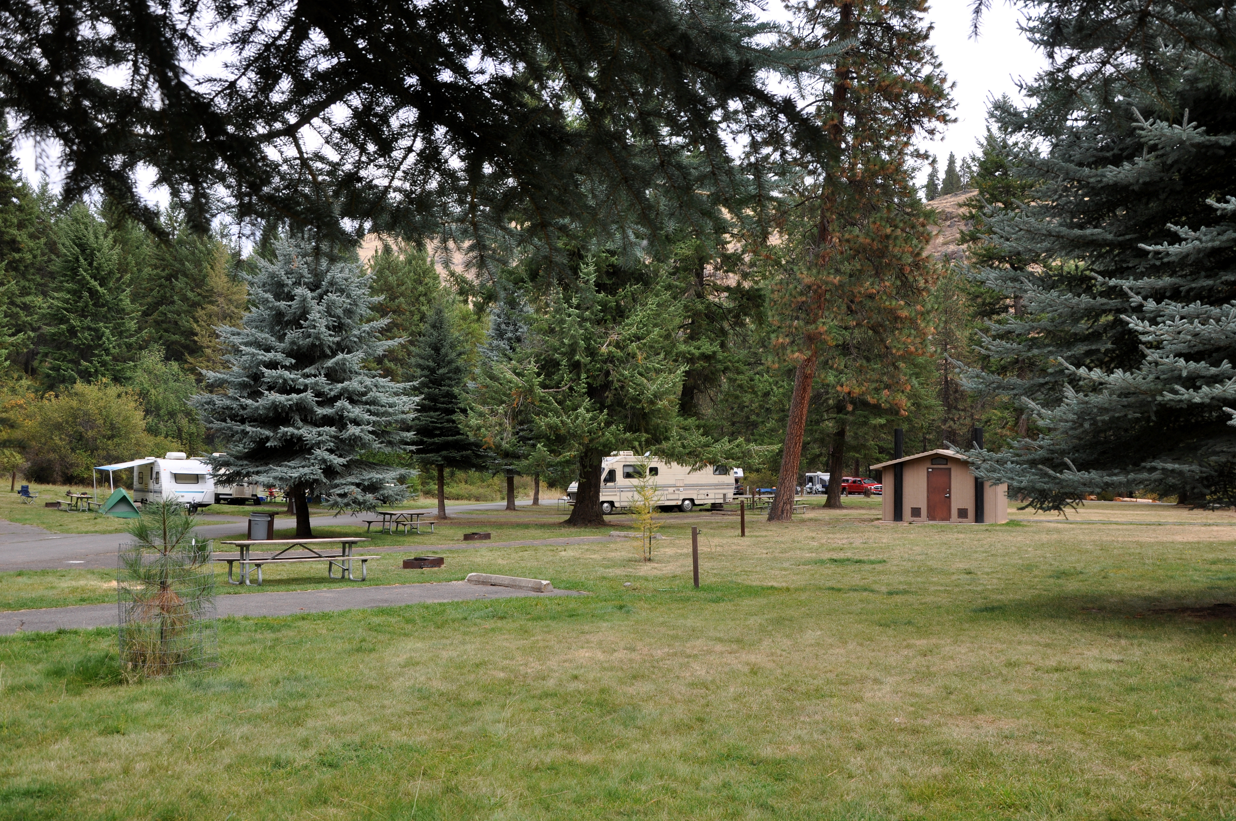 Minam State Recreation Area near the Wallowa River in the U.S. state of Oregon